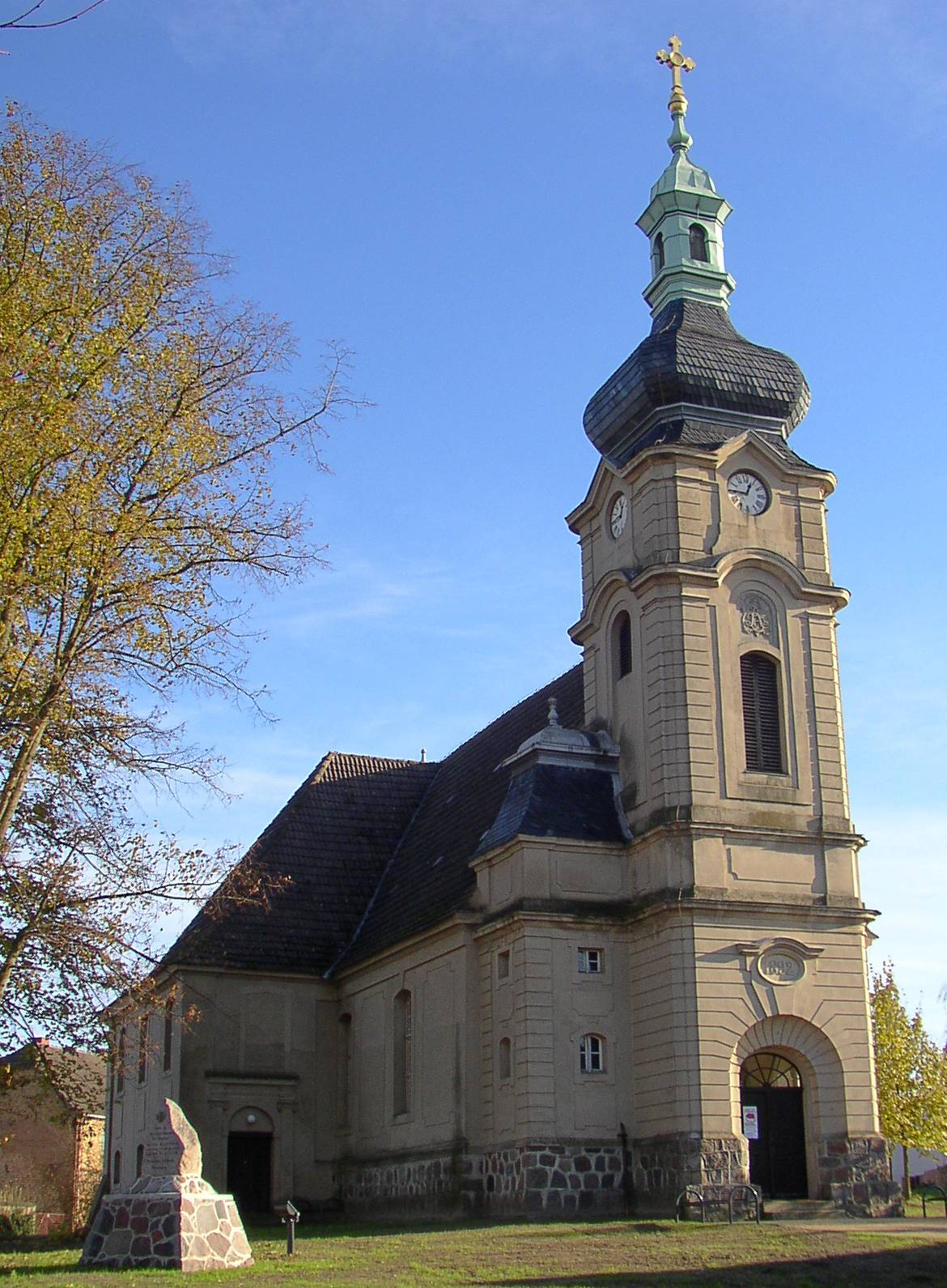 Church in Gransee-Meseberg, Brandenburg, Germany